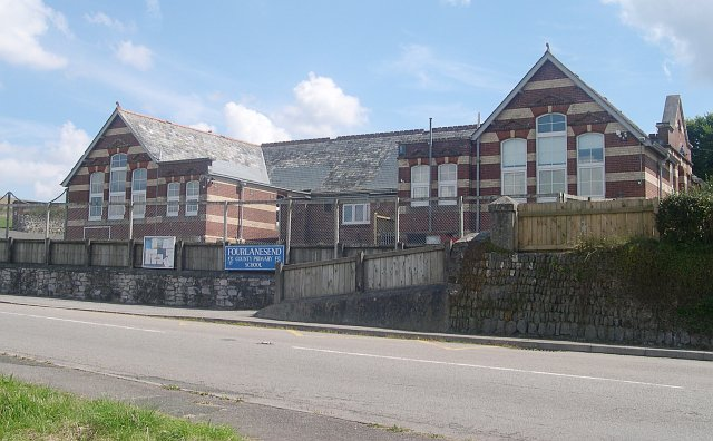 Fourlanesend School. This is the local primary school for the Rame Peninsula. The name comes from its situation on the high ground between Kingsand/Cawsand and Millbrook at the junction of four (or five?) lanes.